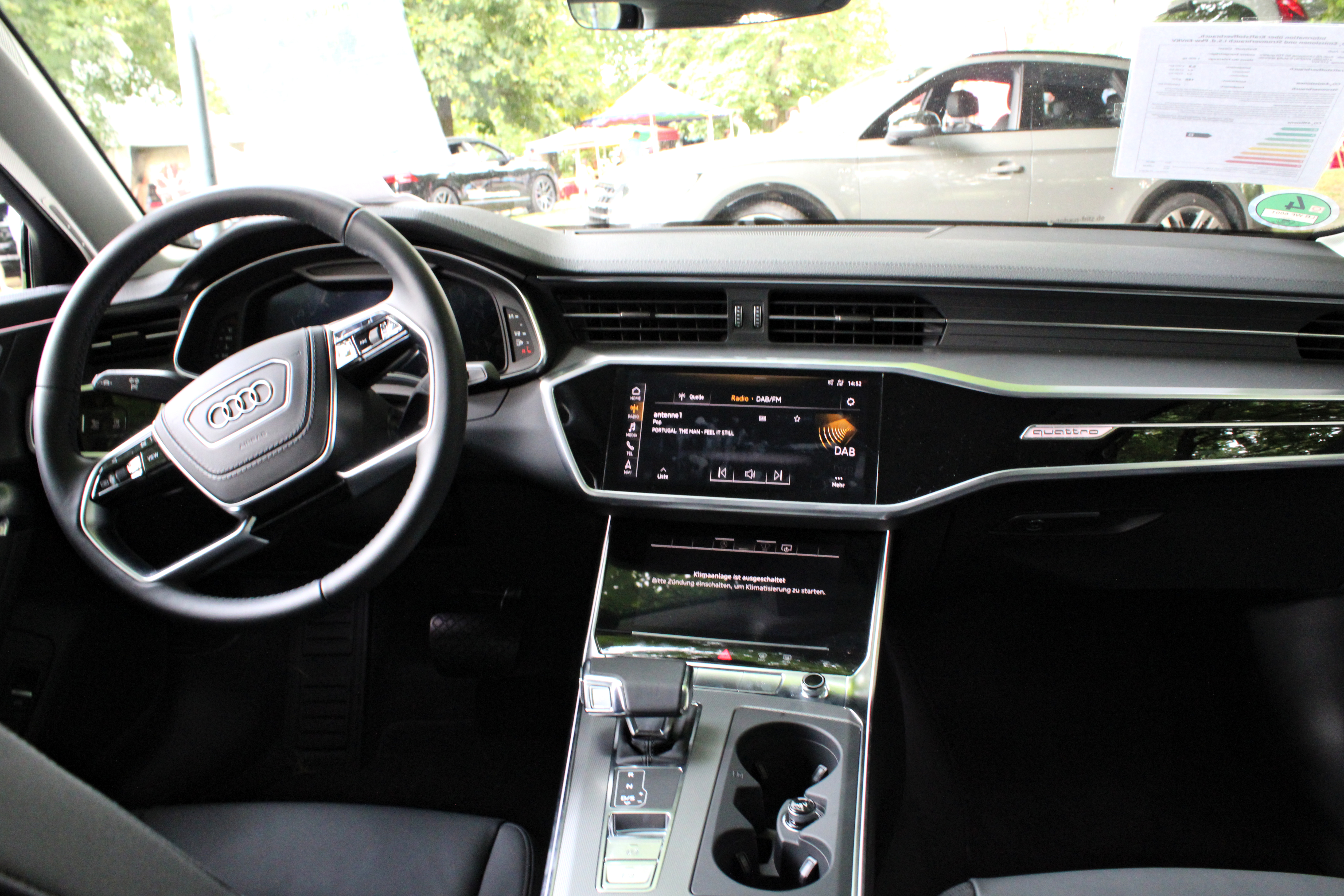 Audi A6 at schloss Monrepos 2018